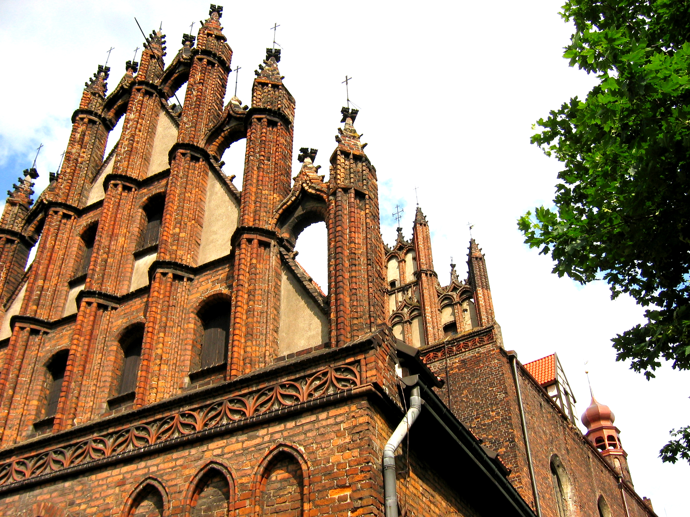 Church of Saint Trinity in Gdansk